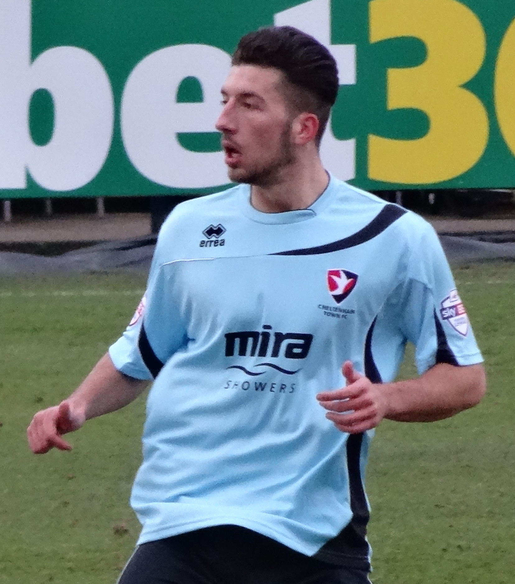 Lee Lucas.